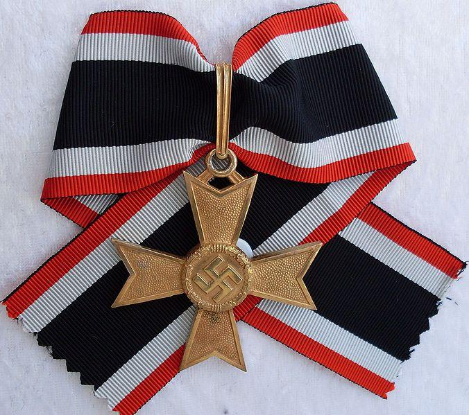 The Knights Cross War Merit Cross in Gold (without swords). The highest level that was awarded.